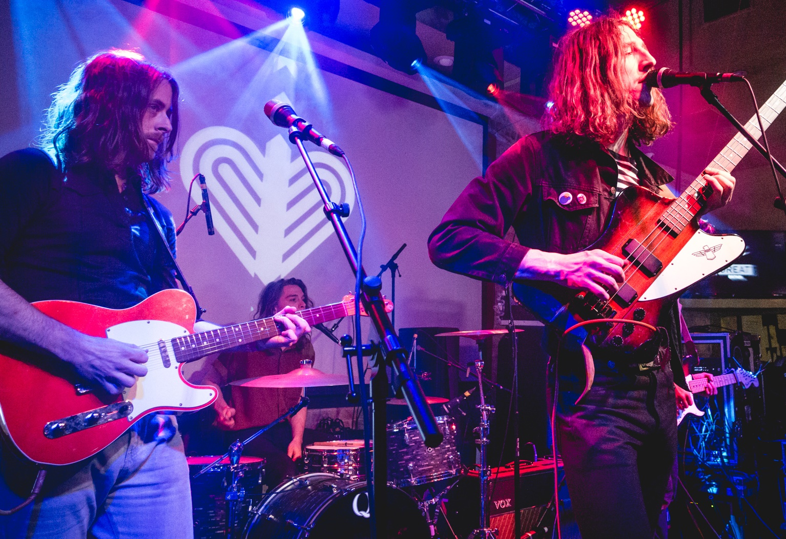 Demob Happy live in concert